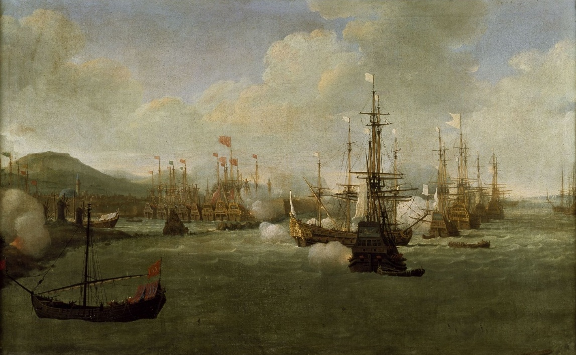 Blockade and bombardment of the island of Chios in 1681 by the French squadron of Abraham Duquesne pursuing the Muslim pirates of Tripoli.